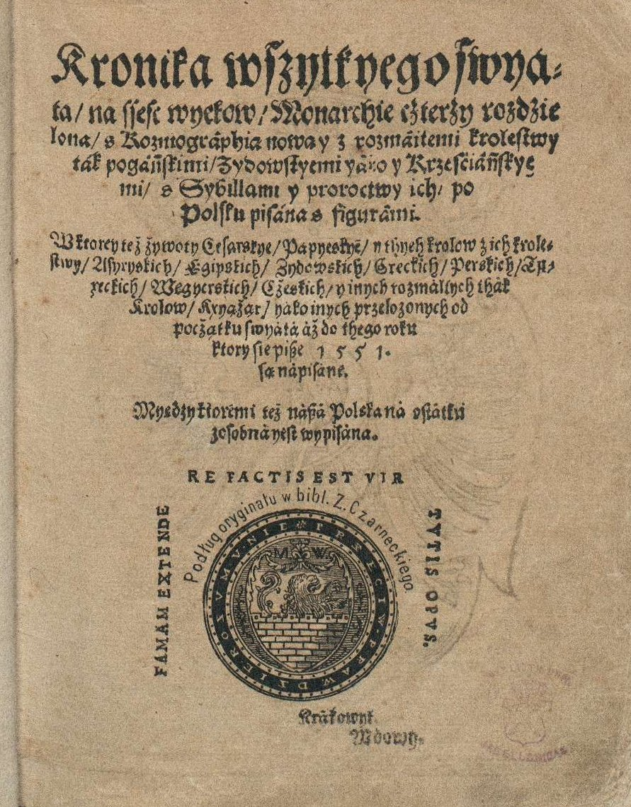 Title page of Kronika wszytkiego swiata by Marcin Bielski.